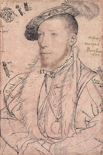 William Parr, 1st Marquess of Northampton (c1512-1571)